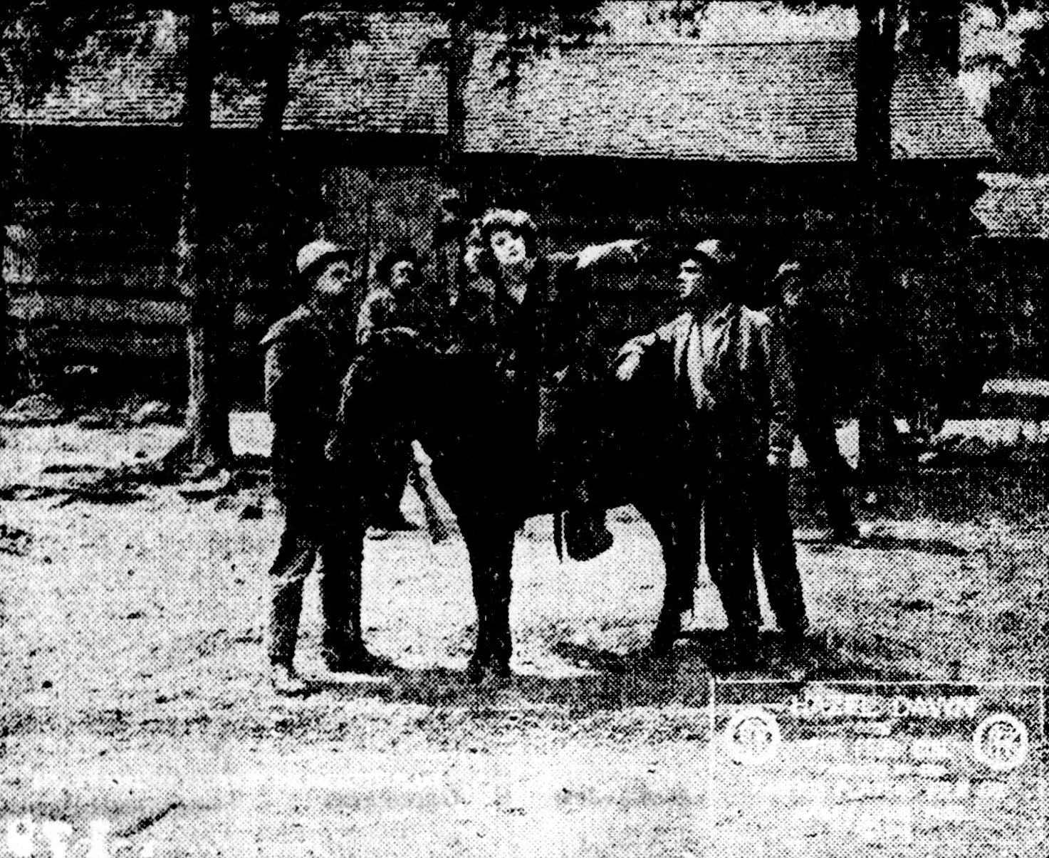 The Feud Girl is a 1916 American drama silent film directed by Frederick A. Thomson and written by Charles Logue. This is a scene depicted in a newspaper.